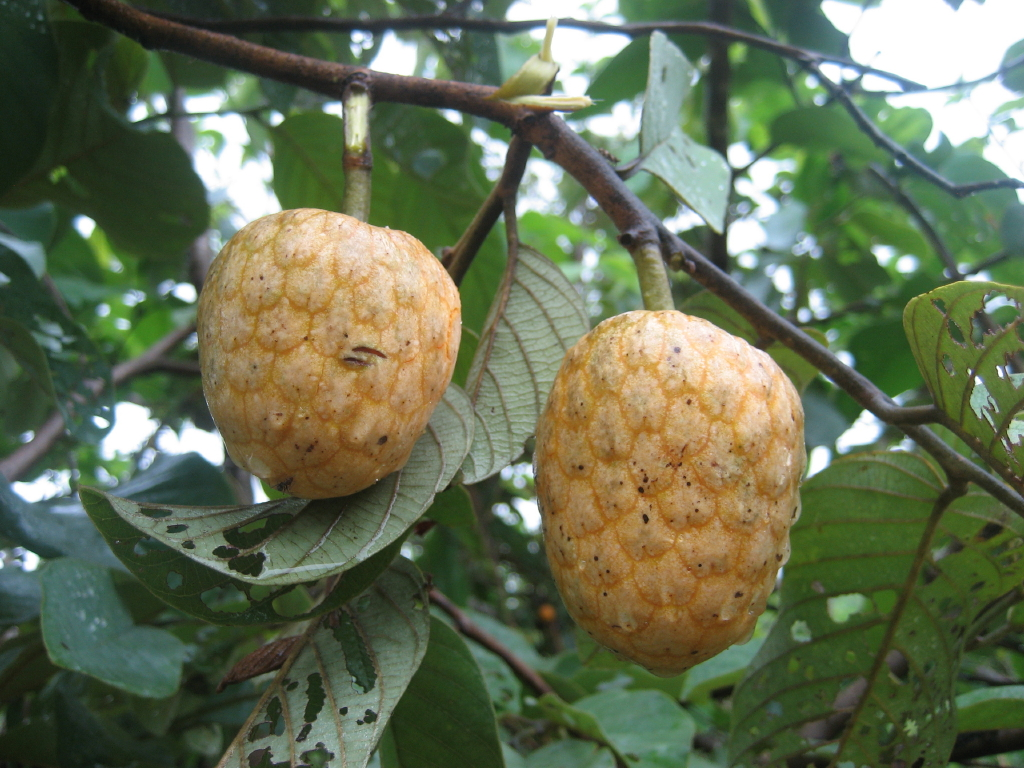 Annona senegalensis, a wild fruit with an excellent taste, common in most of Mozambique. Picture from Zembe village in Manica province. Local name: "Maroro"